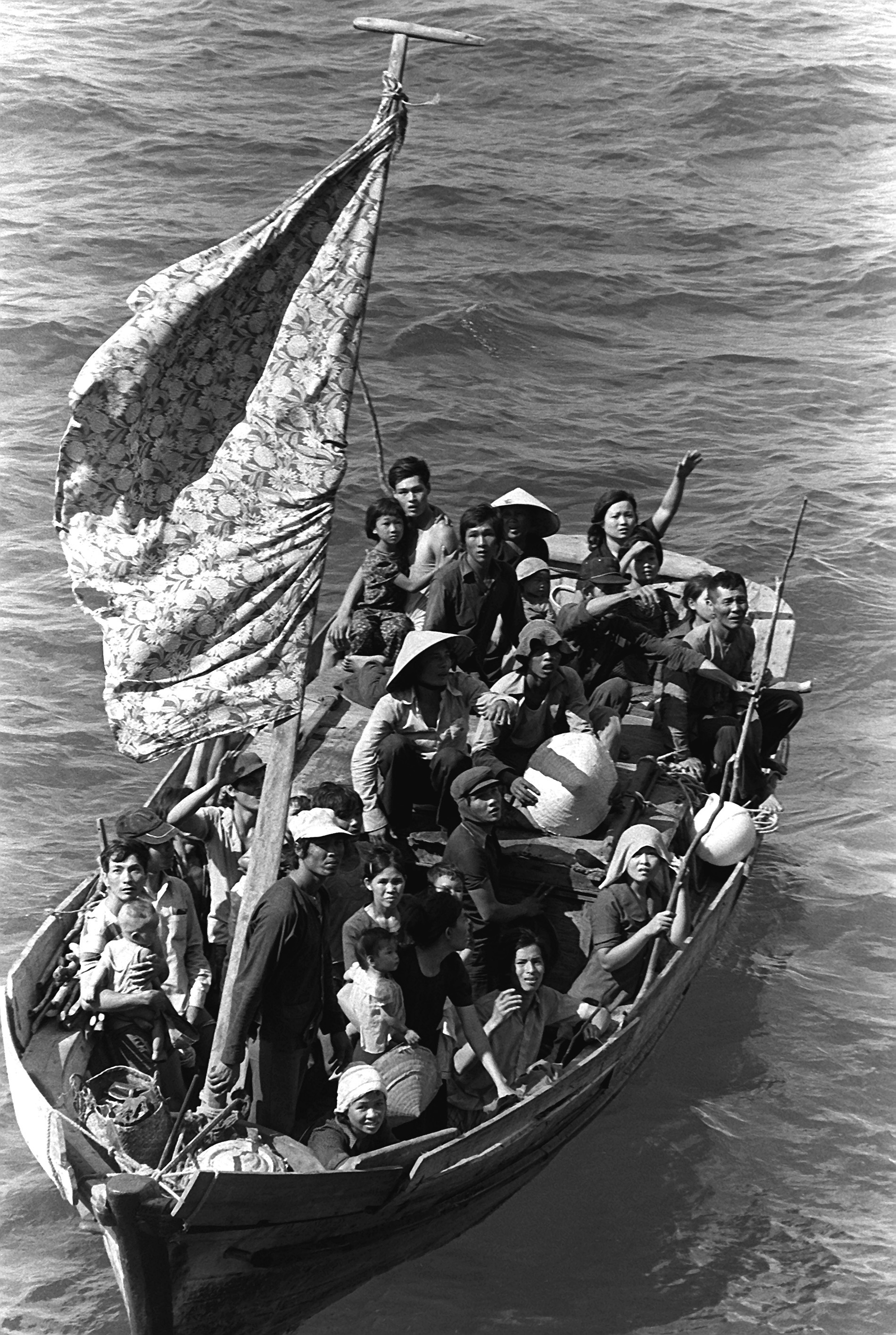 35 Vietnamese refugees wait to be taken aboard the amphibious command ship USS BLUE RIDGE (LCC-19). They are being rescued from a 35 foot fishing boat 350 miles northeast of Cam Ranh Bay, Vietnam, after spending eight days at sea.